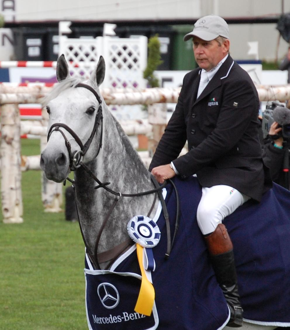 Nick Skelton with Carlo, prize giving ceremony of the "Championat von Hamburg", CSI 5* Hamburg 2012